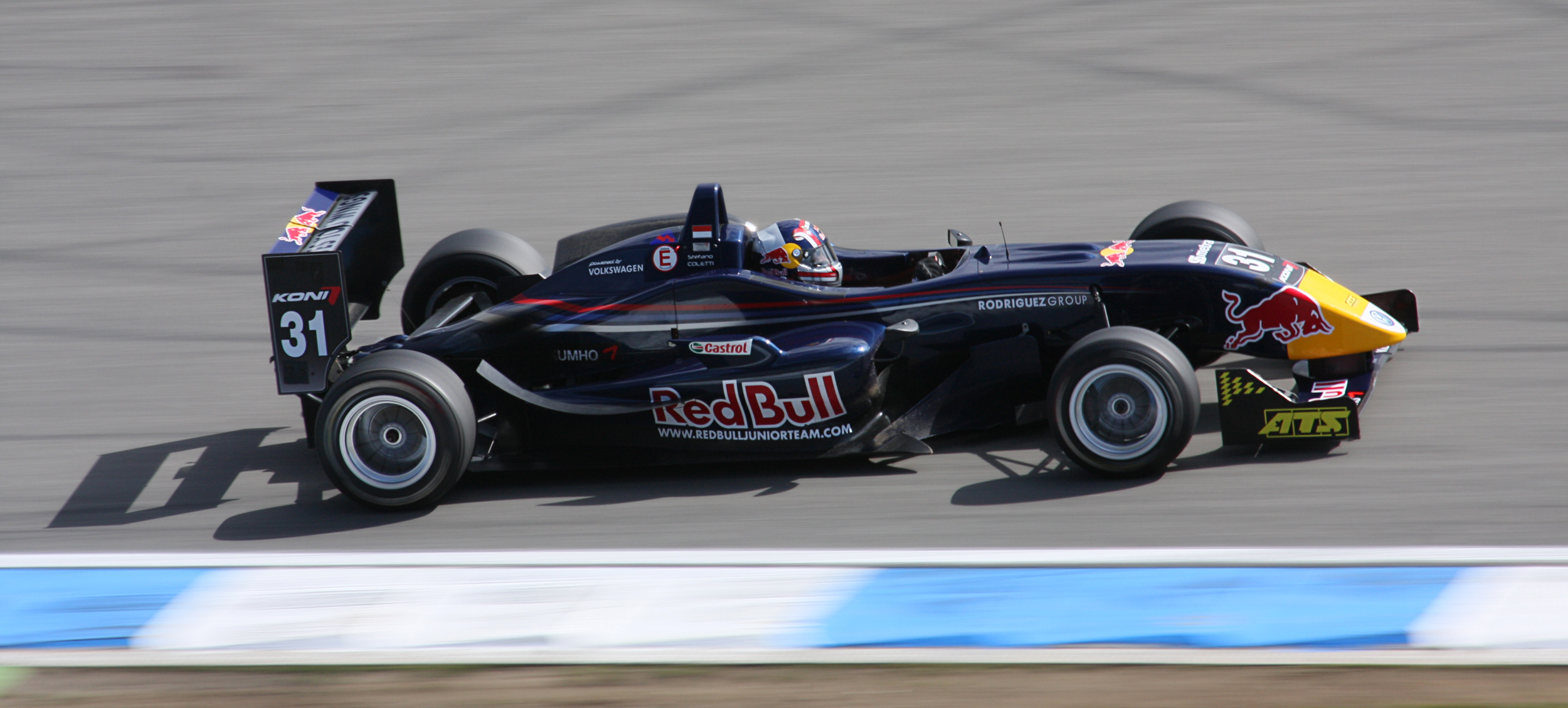 Formel 3 racing car at Hockenheimring. #31 Stefano Coletti (Signature-Plus).